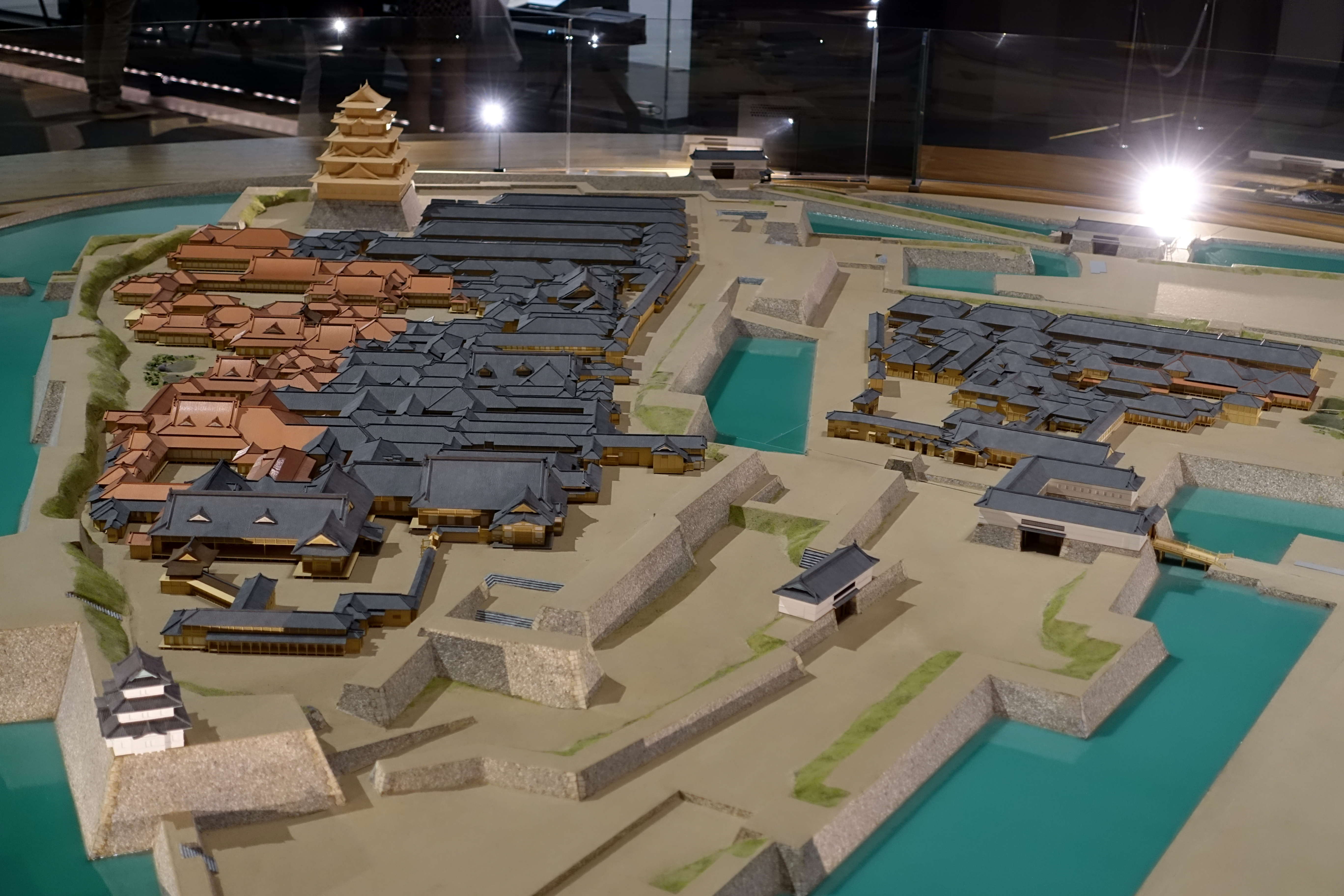 Honmaru and Ninomaru Palaces, Edo Castle, in the last years of the Tokugawa Shogunate, model scale 1 over 200 - Edo-Tokyo Museum - Sumida, Tokyo, Japan.